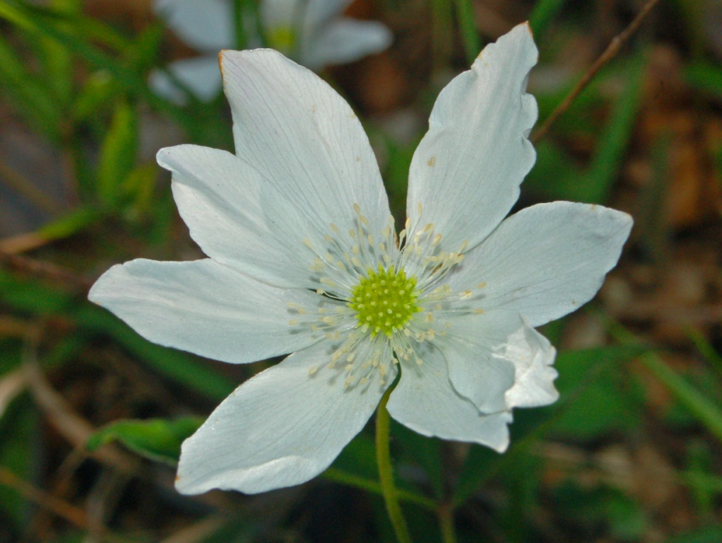 Anemone trifolia - Pian dei Grilli, Genova, Italy